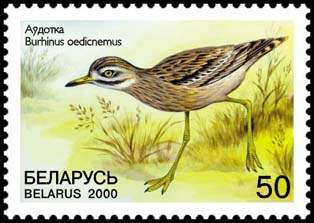 Stamp of Belarus